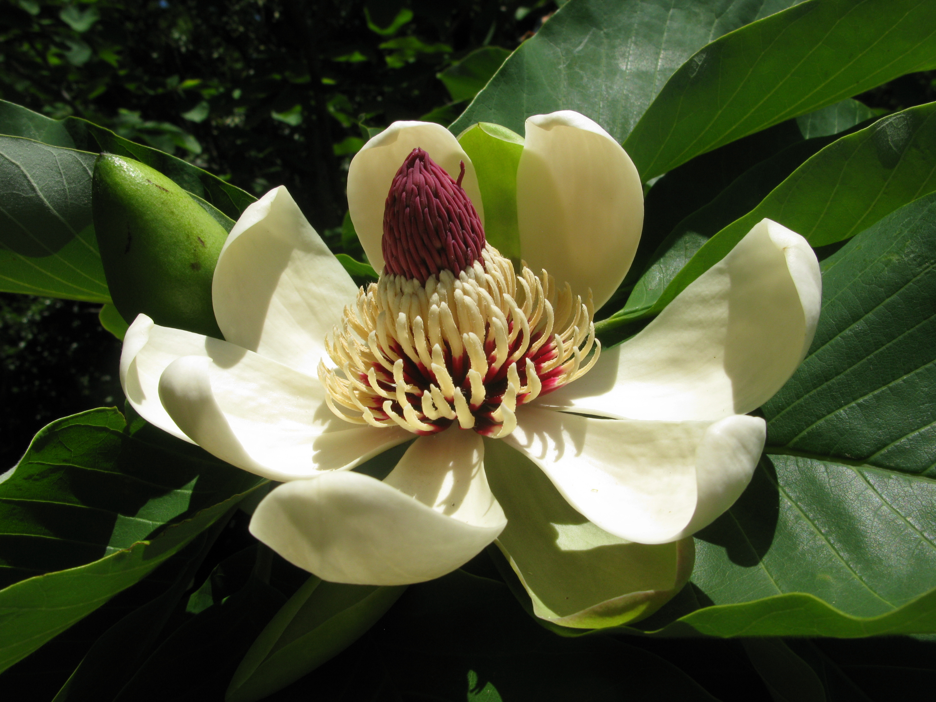 Magnolia obovata, Jindai Botanical Garden, Tokyo, Japan